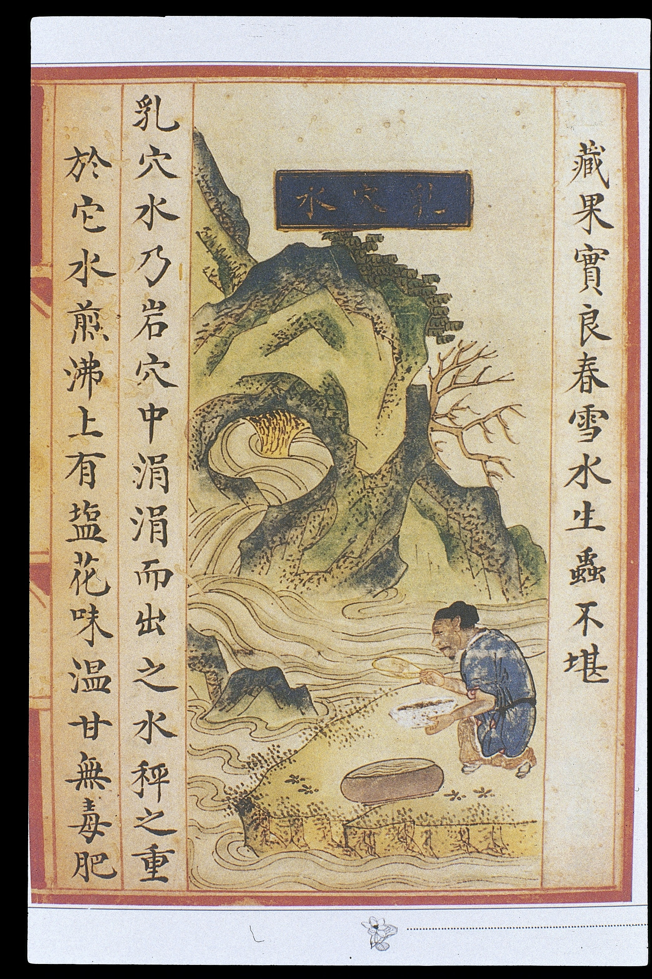 Illustration of stalactite water fromShiwubencao(Materia dietetica), a dietetic herbal in four volumes dating from the Ming period (1368-1644). The identity of the author and artists is unknown. It contains entries on over 300 medicinal substances and is illustrated by almost 500 paintings in colour.This illustration is headedquanxue shui-- spring-cave water; however the corresponding entry in the text refers toruxue shui, i.e water from a limestone cave with stalactites (shizhongru). The illustration shows a spring gushing from a cave containing stalactites. The water is being collected by a man who holds a bowl in his left hand and a scoop in his right hand.The text states: Stalactite-cave water is heavier than other kinds of water. When it is boiled, salt particles appear on the surface. Stalactite-cave water is sweet in sapor and non-poisonous. Drinking stalactite-cave water can make one sturdy and healthy and help preserve a handsome youthful appearance. It has similar medicinal properties to human milk [Translator's note: the lexemeruinruxue shui --stalactite-cave water -- is a homonym ofru,milk]. It is extremely beneficial to the health to use stalactite-cave water for cooking and liquor making. Fish raised in stalactite-cave water have healthy-giving and tonic properties when eaten. Painting